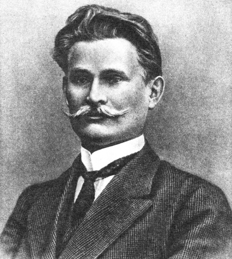 Kazys Grinius, Prime Minister of Lithuania, member of Constituent Assembly of Lithuania